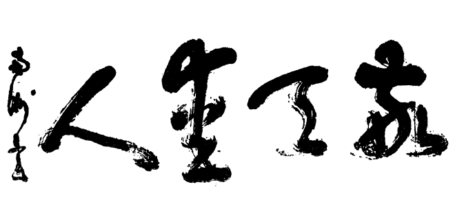 by Saigō Takamori(1828-1877). Public domain. 敬天愛人=Keiten Aijin It means "Revere heaven, love people". Origin:Kangxi Emperor